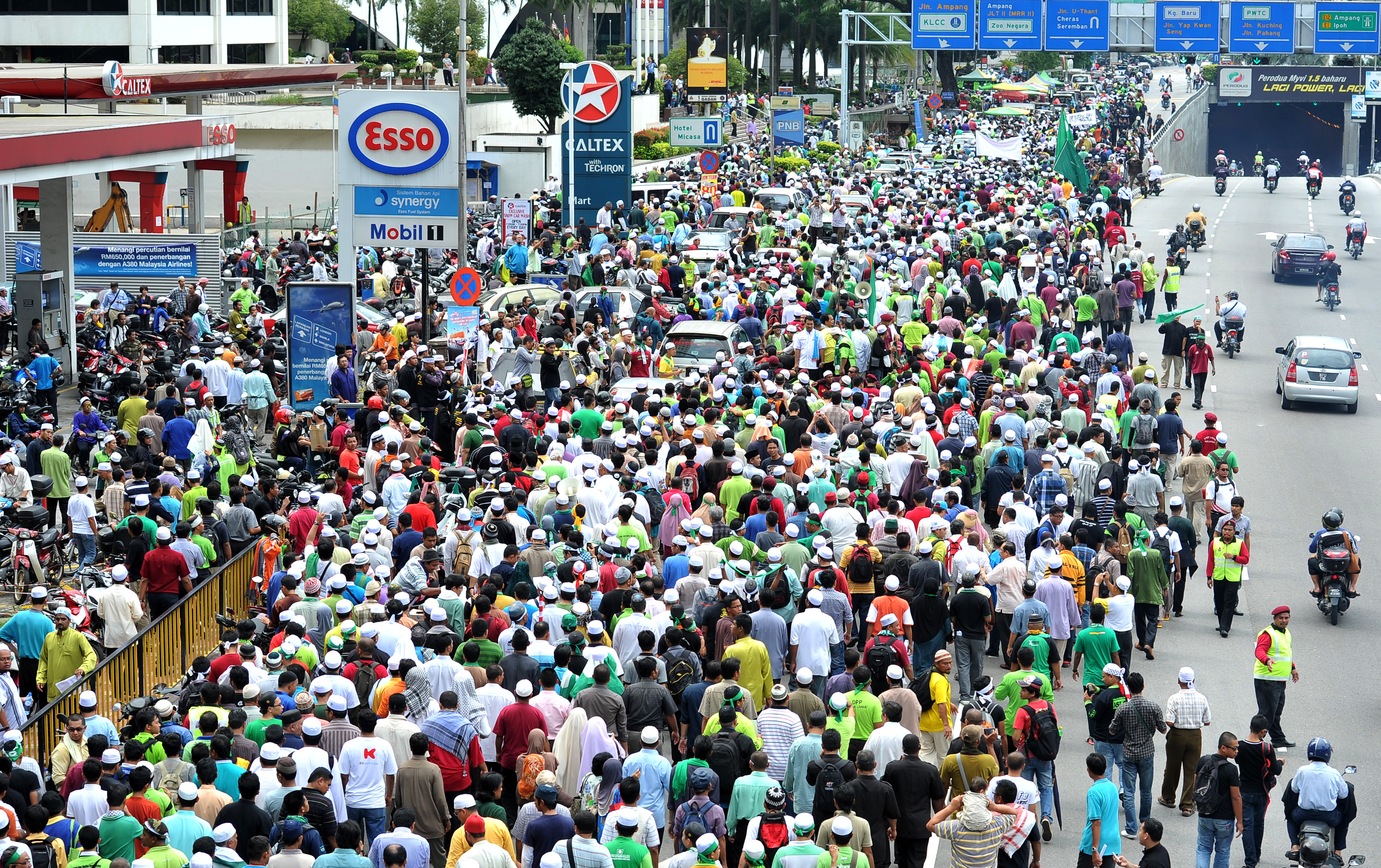 Kuala Lumpur, 21/09/2012. Malaysian Muslim demonstrators march towards the US embassy against an anti-Islam film, "Innocence of Muslims" and the publication of caricature of the Holy Prophet Muhammad..Pic FIRDAUS LATIF